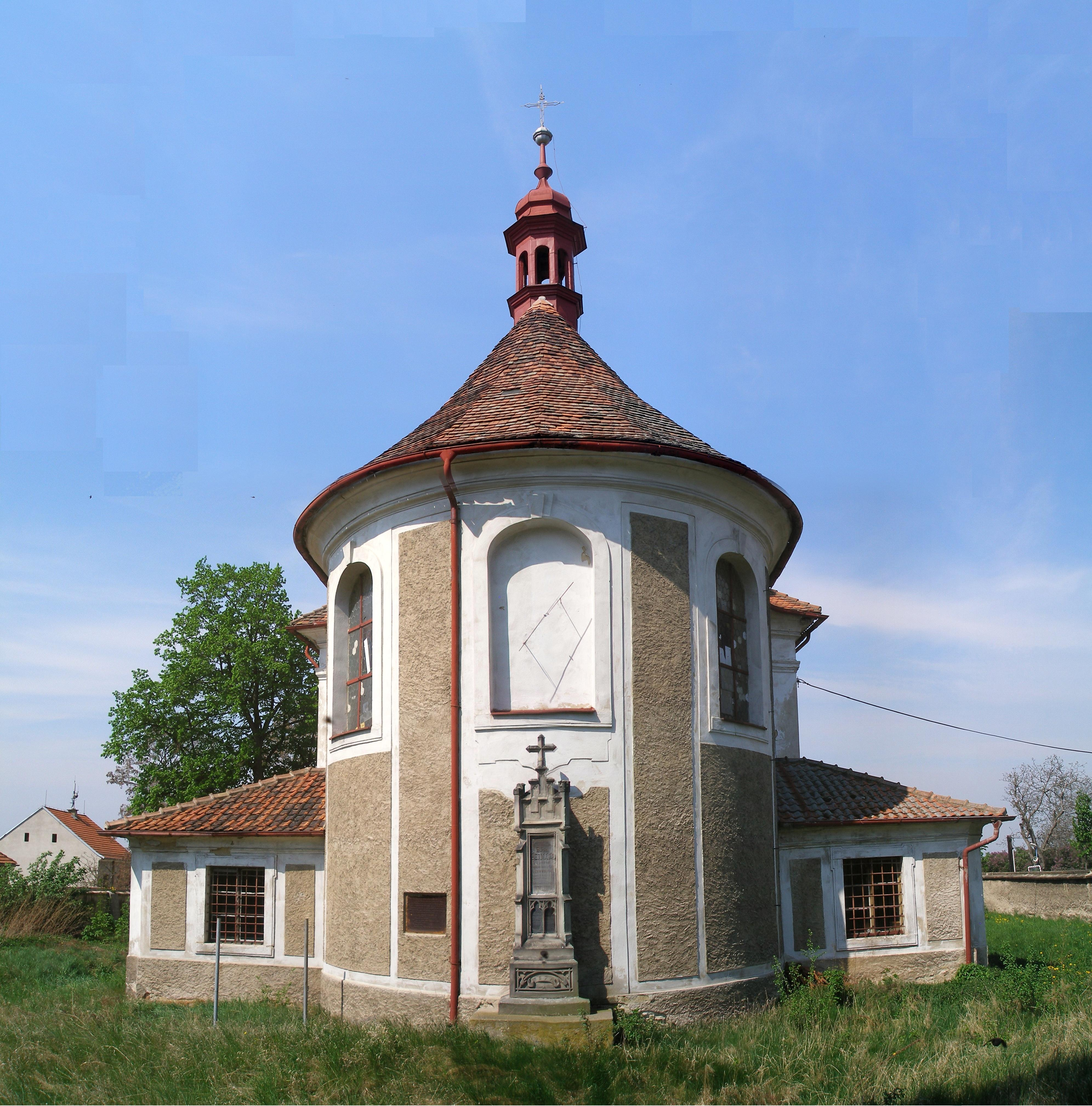 Church in Černouček (view from east).